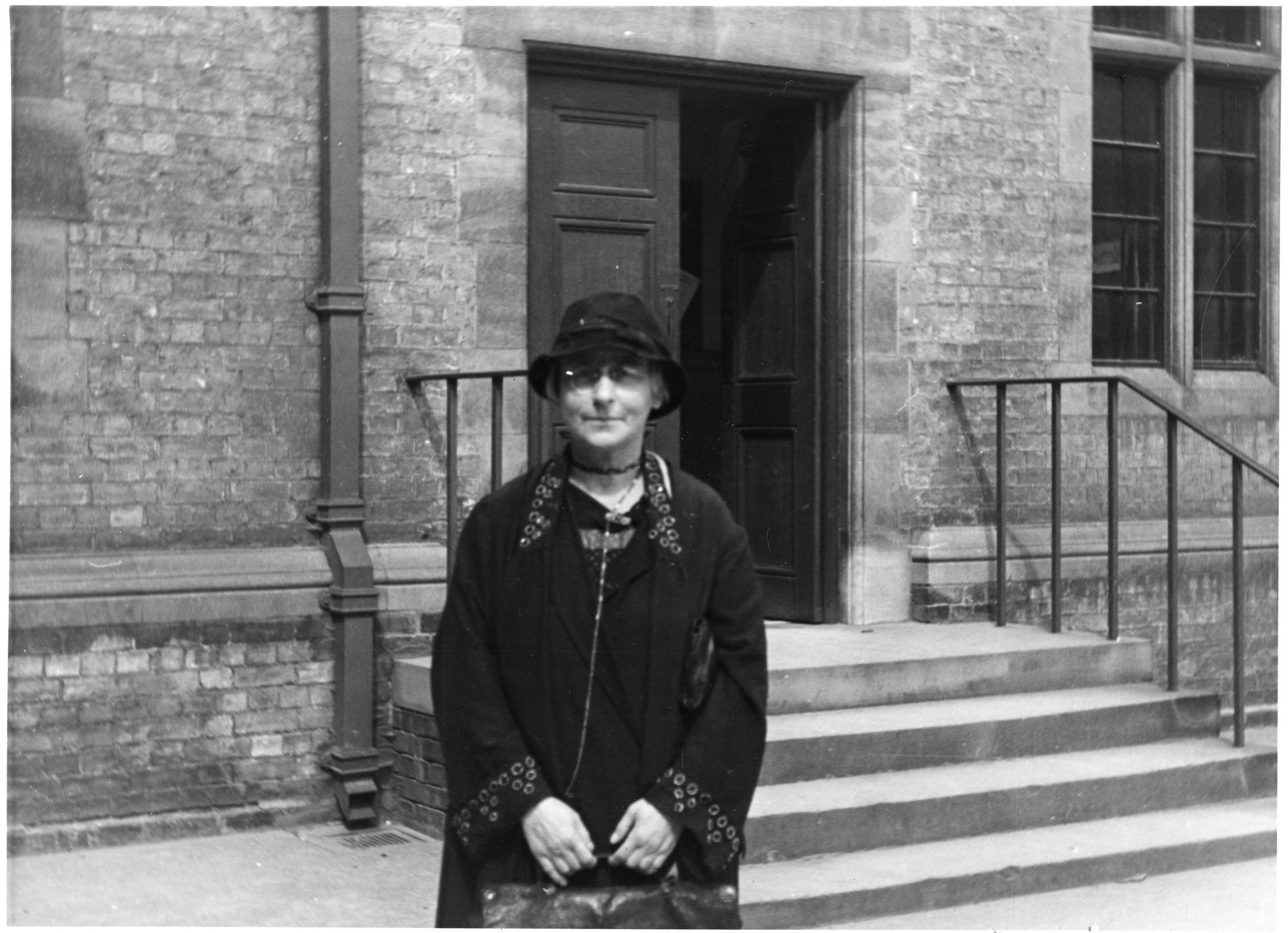 Creator: Davis, Watson 1896-1967 Subject: Rabel, Gabriele Science Service University of Cambridge Archives British Association for the Advancement of Science Type: Black-and-white photographs Date: 1938 Aug-38 Topic: Biology Women scientists Journalism, Scientific Local number: SIA Acc. 90-105 [SIA2009-2011] Summary: Biologist Gabriele Rabel (b. 1880) was working in Germany when she began contributing news articles to Science Service. A native of Austria, she moved to England before World War II. Her papers and diaries are in the Cambridge University Archives ("The Papers of Gabriele Rabel, 1893-1958"). A prolific writer, she was known later in her career for her translations and discussion of philosopher Immanuel Kant. Watson Davis took this photograph at the 1938 meeting of the British Association for the Advancement of Science Cite as: Acc. 90-105 - Science Service, Records, 1920s-1970s, Smithsonian Institution Archivess Persistent URL:Link to data base record Repository:Smithsonian Institution Archives View more collections from the Smithsonian Institution.